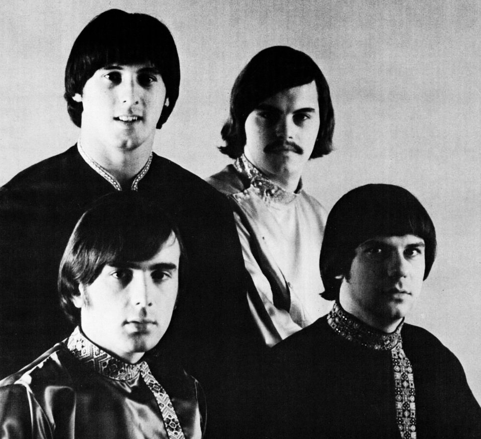 Trade ad for The Human Beinz's single "Nobody But Me".To better adapt it to his respective Wikipedia article, the ad was cropped and cleaned in a graphics editing program. The original can be viewed at the source below.